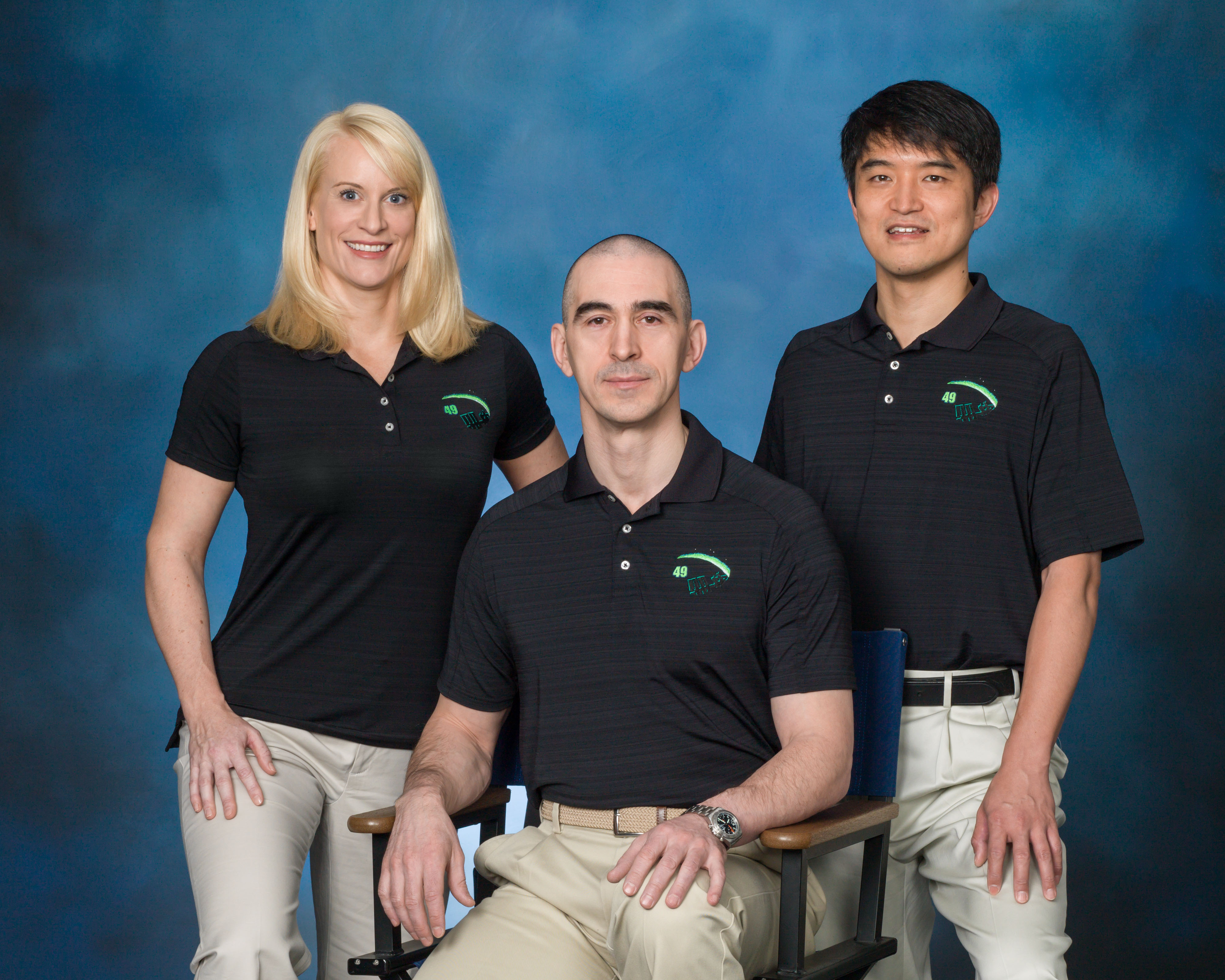 Expedition 49 crew portrait with (from left) NASA astronaut Kate Rubins, Russian cosmonaut Anatoly Ivanishin (Expedition 49 Commander), and Japan Aerospace Exploration Agency (JAXA) astronaut Takuya Onishi.